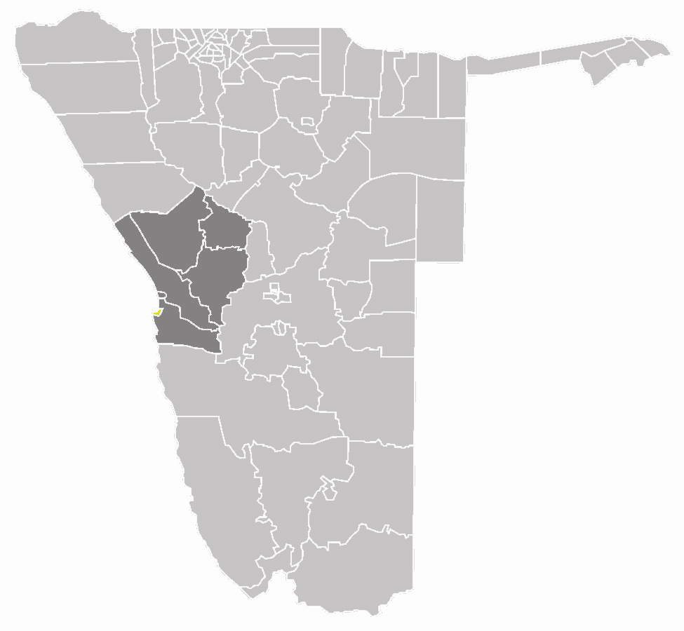 map of the Walvisbay Urban constituency within the Erongo region, Namibia